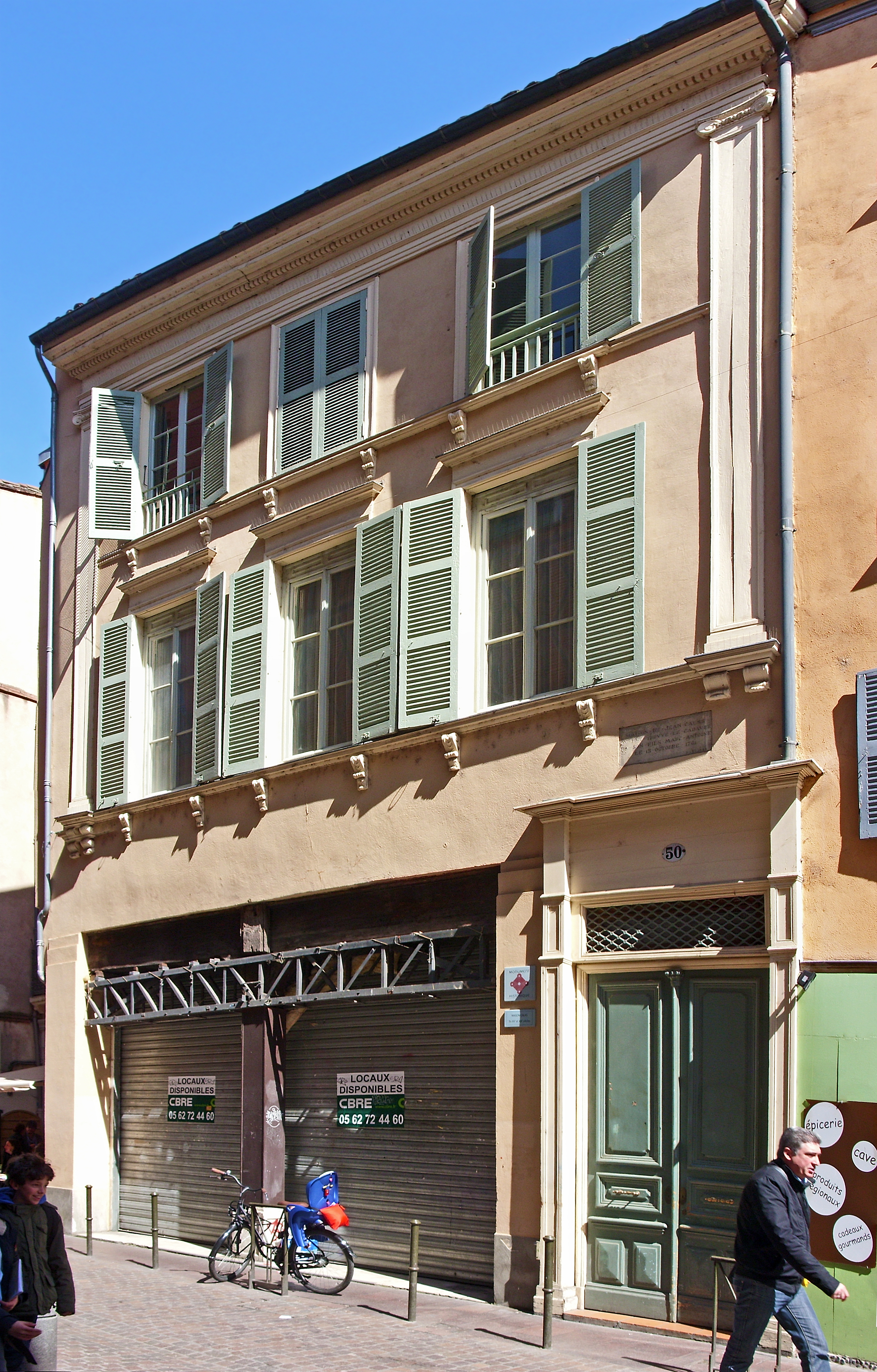 Facade of Jean Calas's House in Toulouse. Inscription above the door: House of Jean Calas, where was found the corpse of his son Marc-Antoine October 13, 1761.